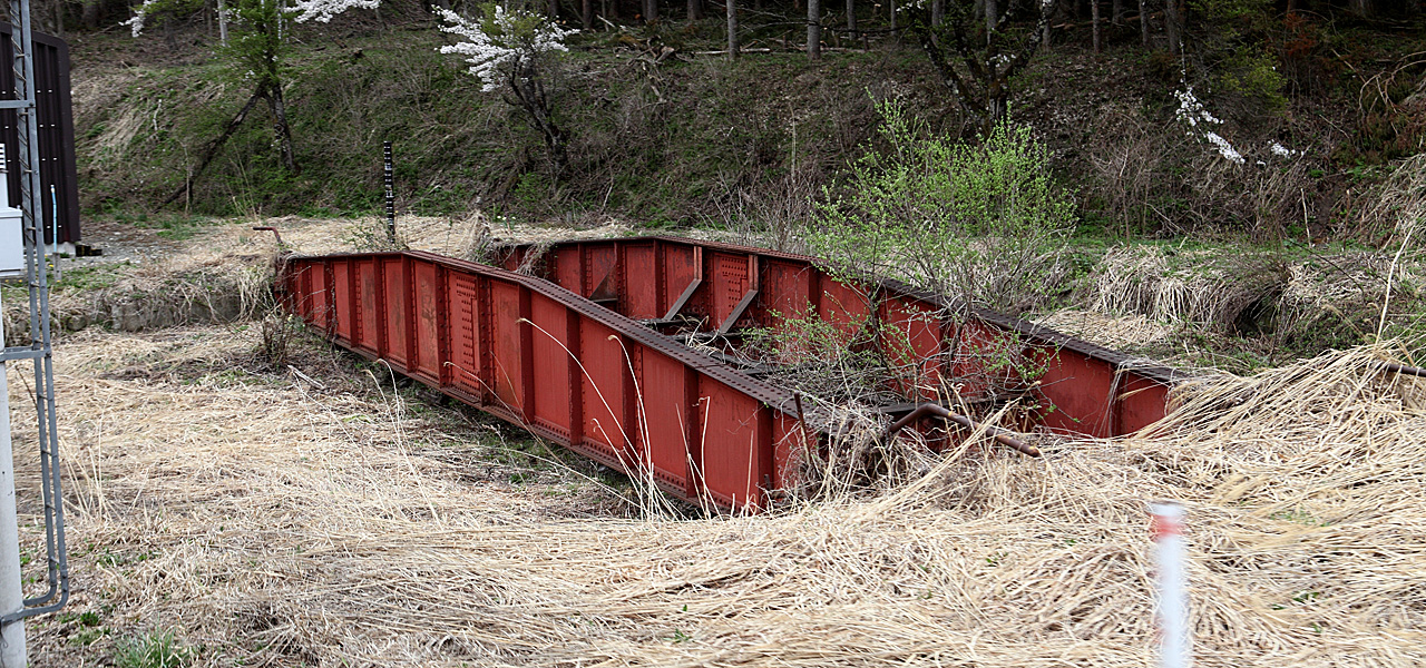 Manpowered turntable at Aizukōgen-Ozeguchi Station